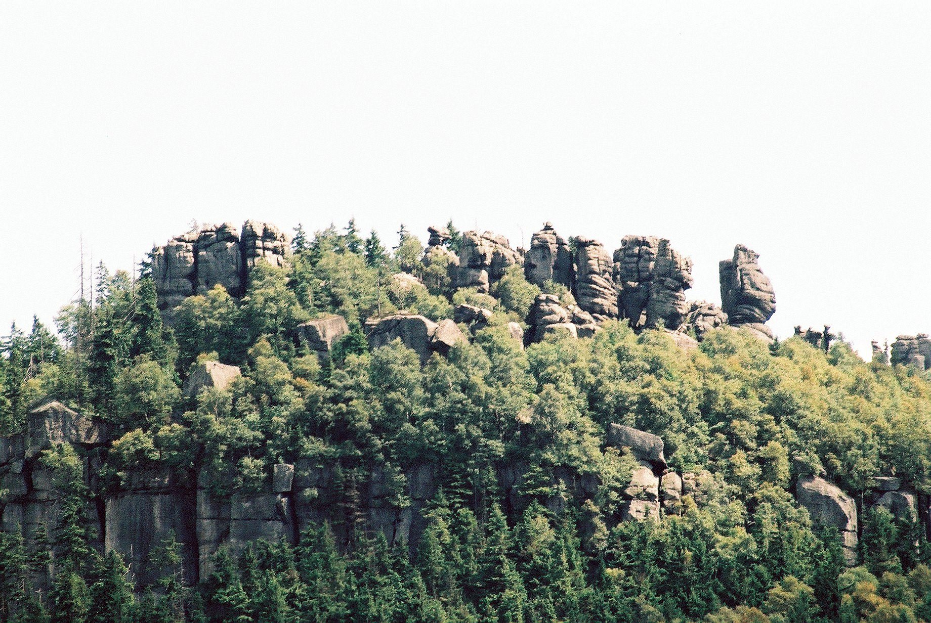 Rock formations on the crown of the Szczeliniec Mały mountain.